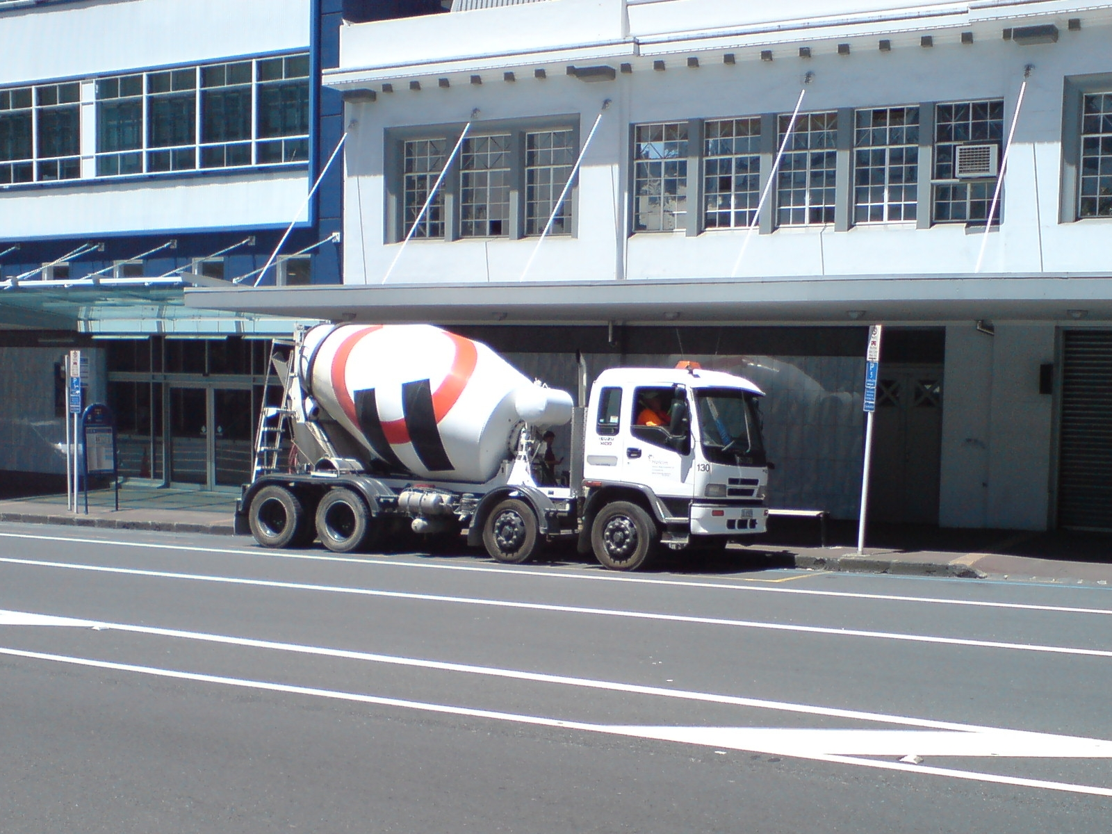 A Holcim concrete truck in Auckland City, New Zealand.